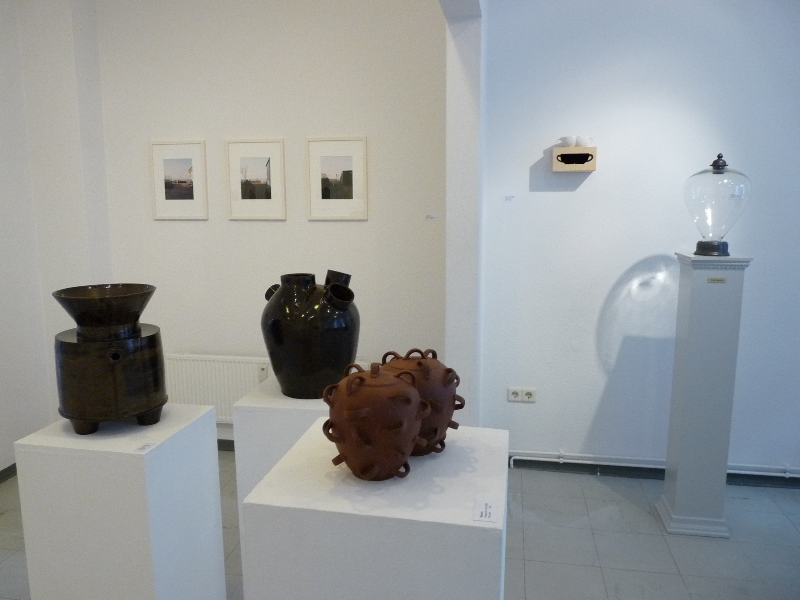 Galery, Artist in Residence "Stadttöpferei Neumünster"